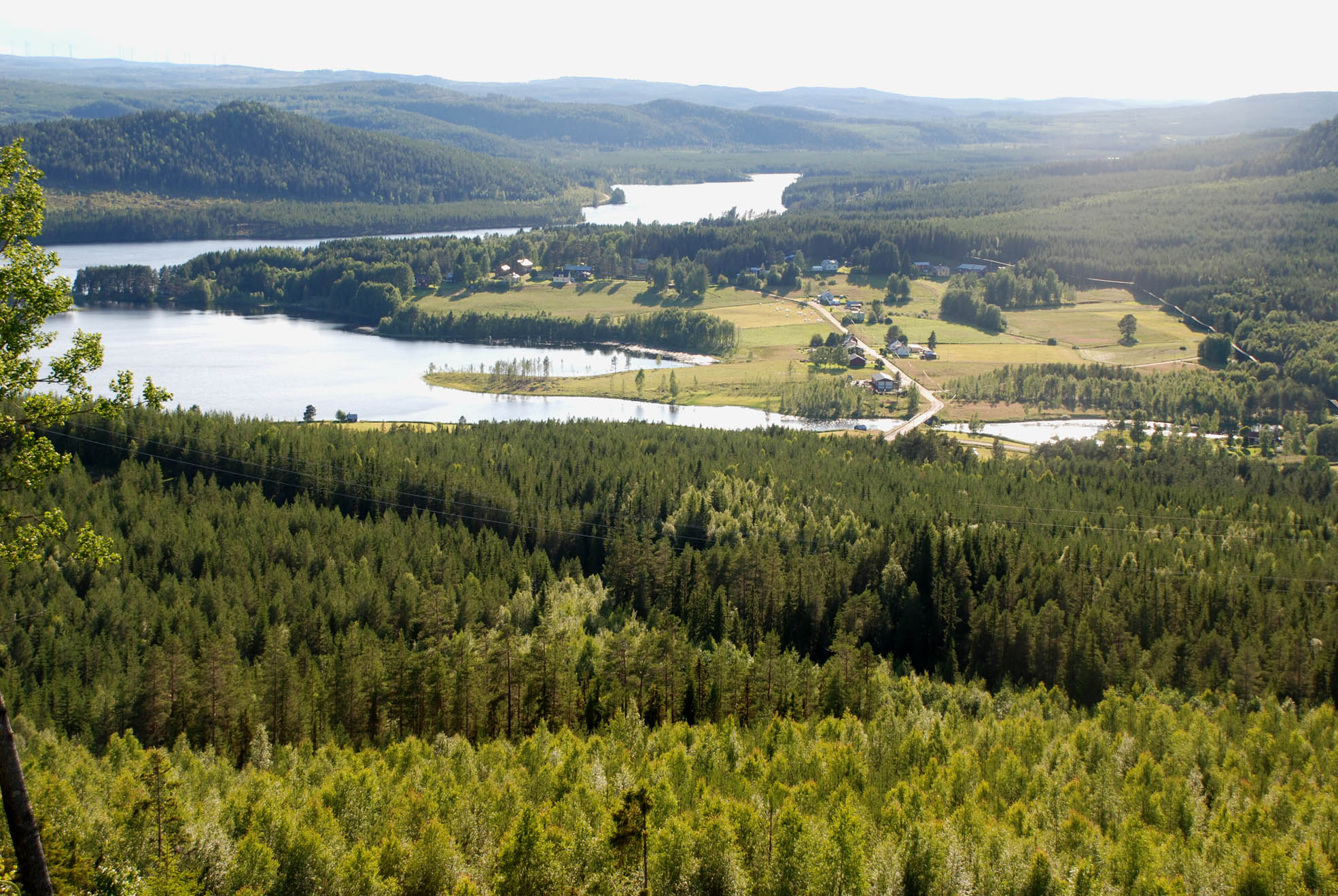 Cängel från Storberg 2015